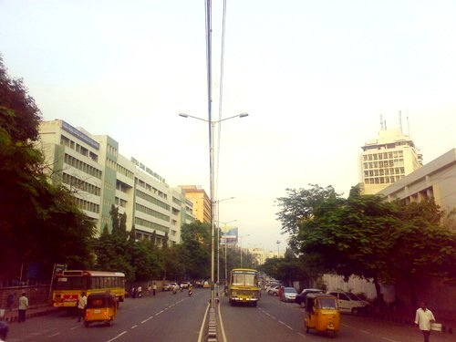 This image shows the Basheerbagh mainroad. self-photographed